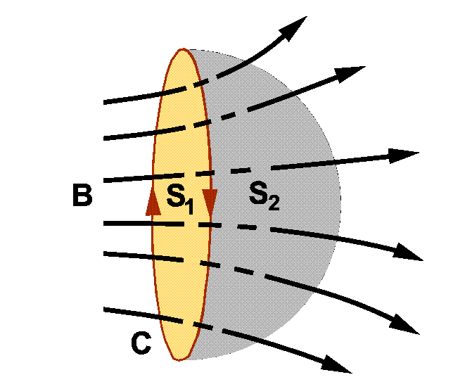 Magnetic flux through semisphere